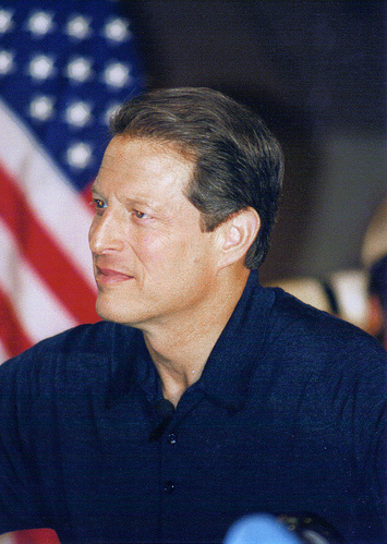 Photo by Craig Michaud.This is Al in 2000 while campaignig for the Presidency of the US